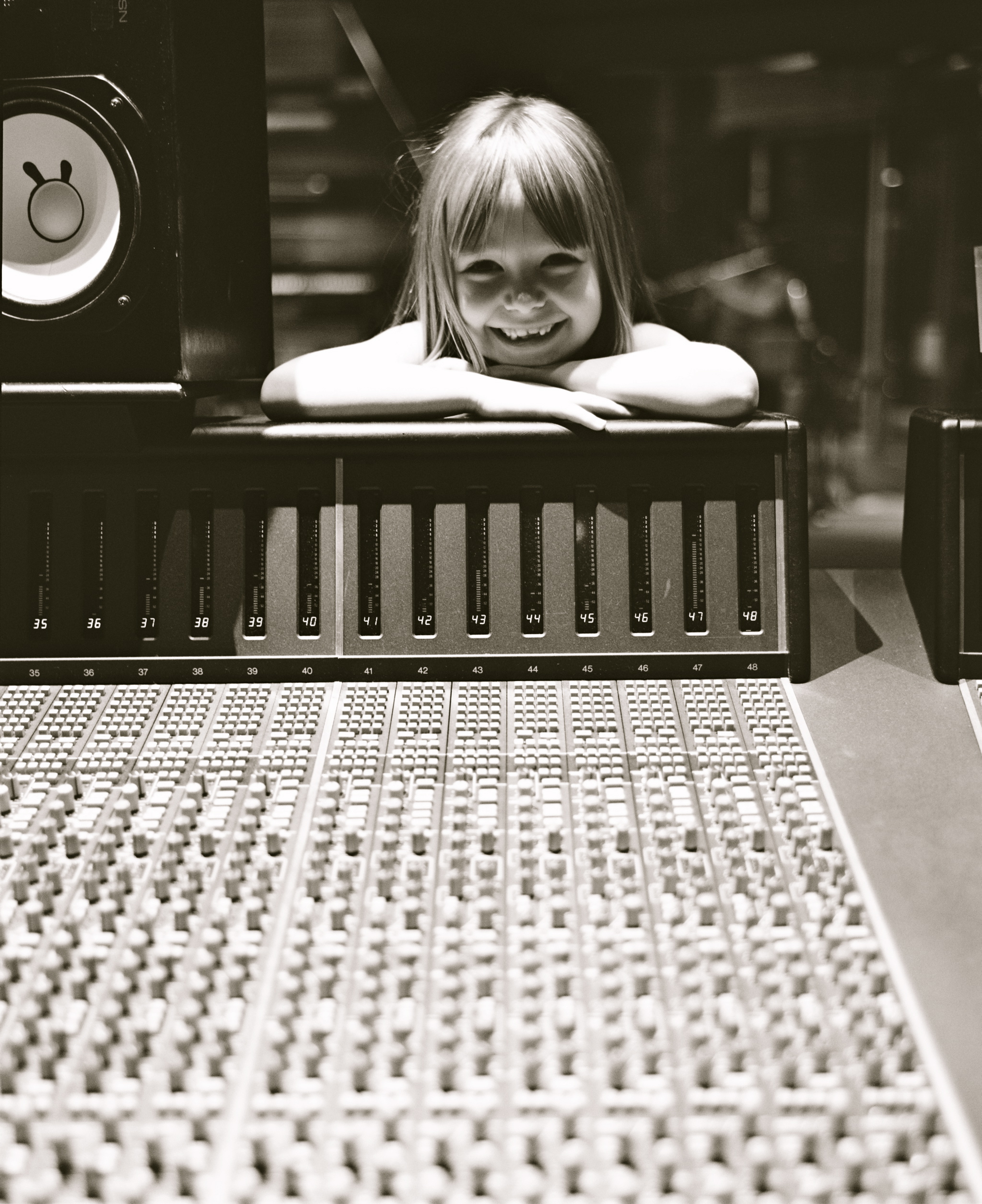 British child singer Connie Talbot at Olympic Studios